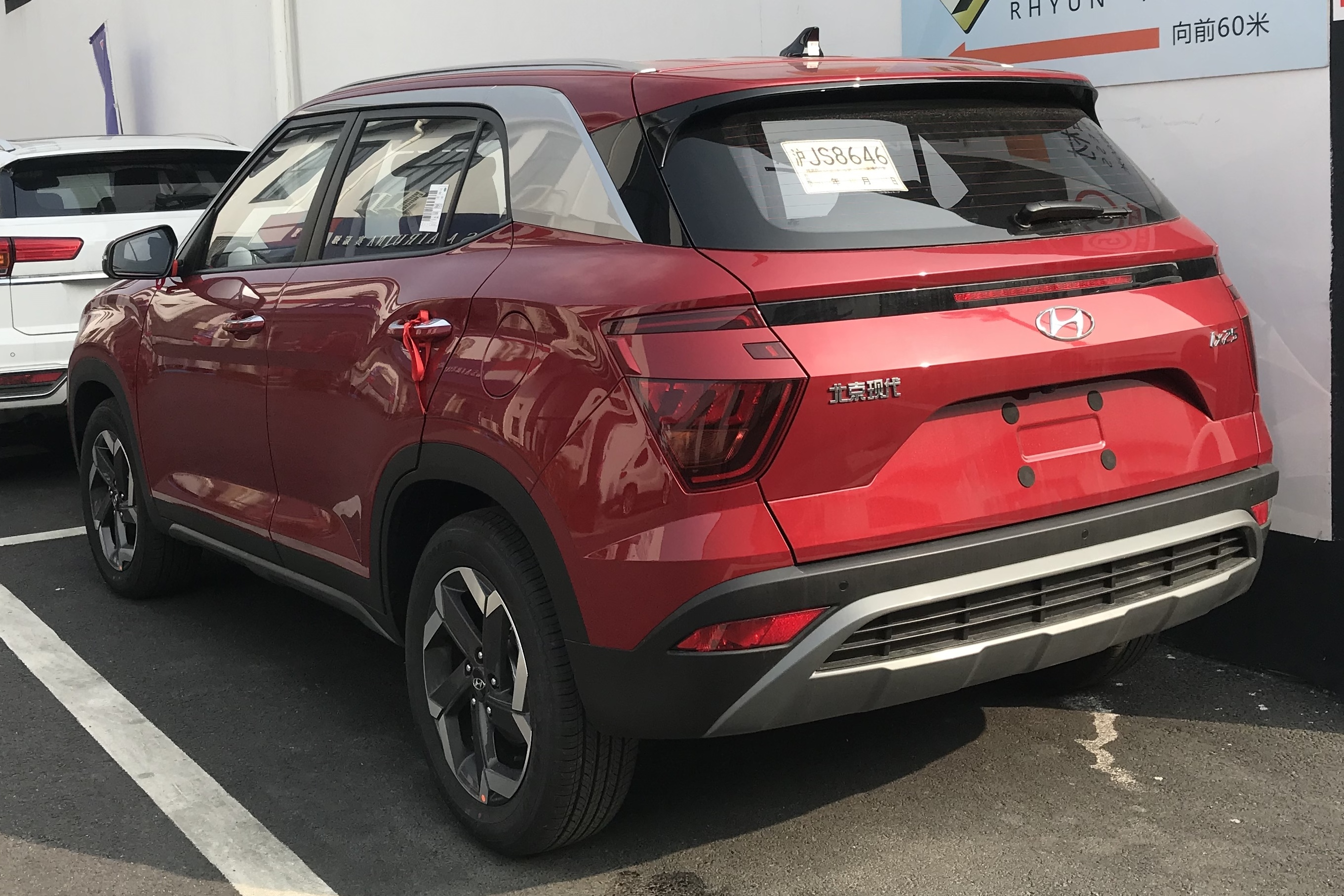 Hyundai ix25 II rear